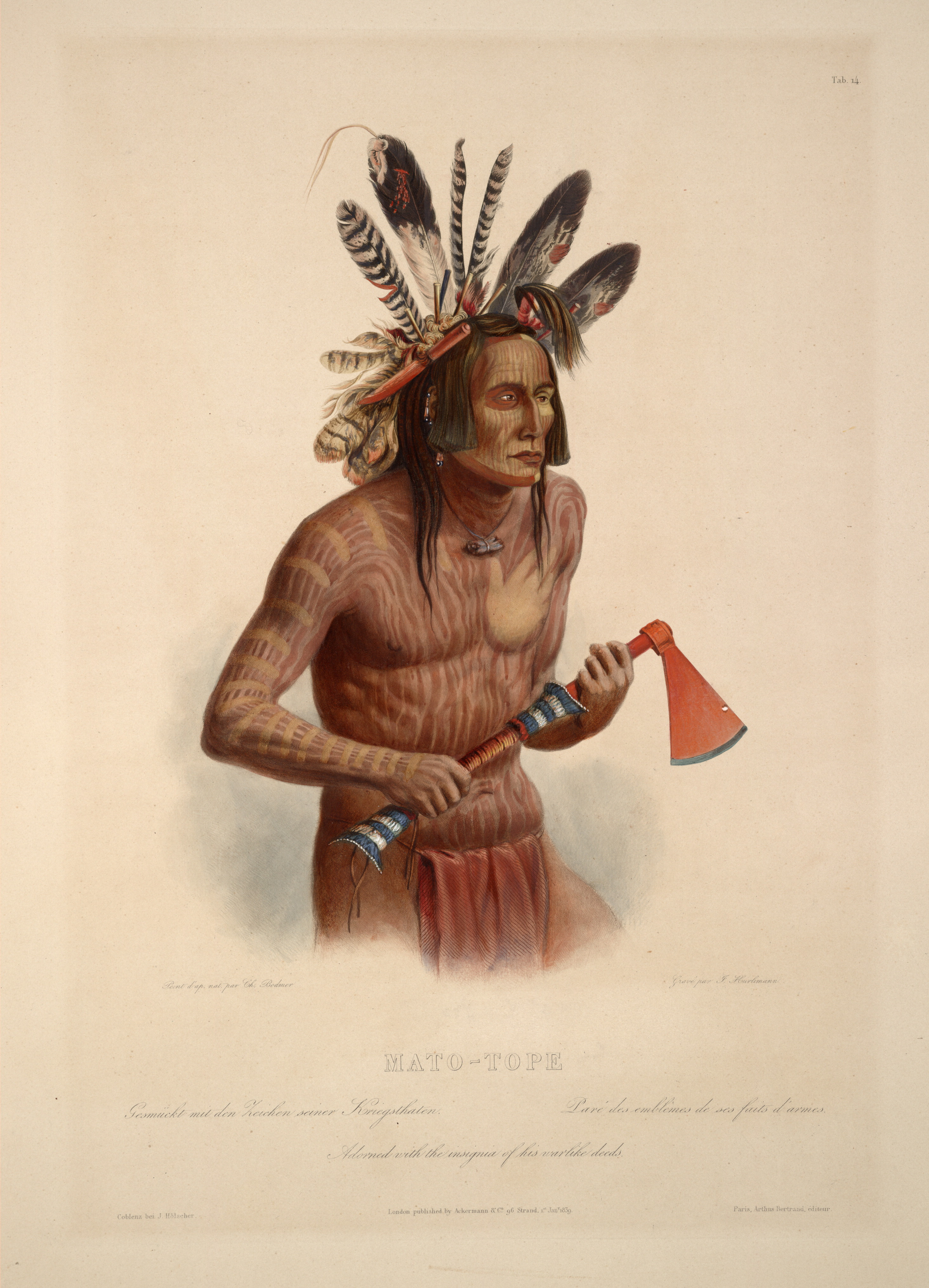 Mato-Tope adorned with the insignia of his warlike deeds